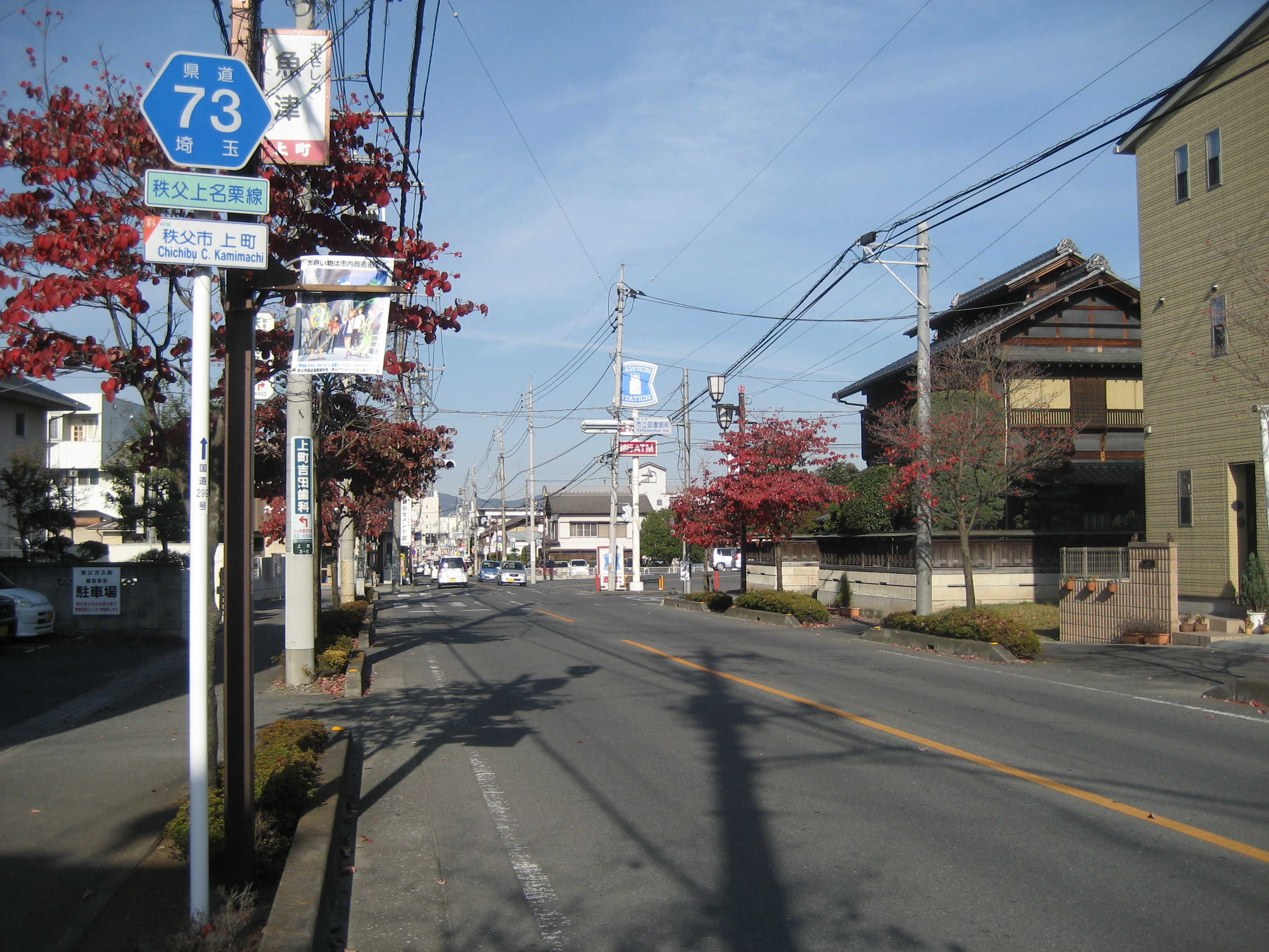 The Saitama Prefectural Road Route 73 in Kamimachi, Chichibu City